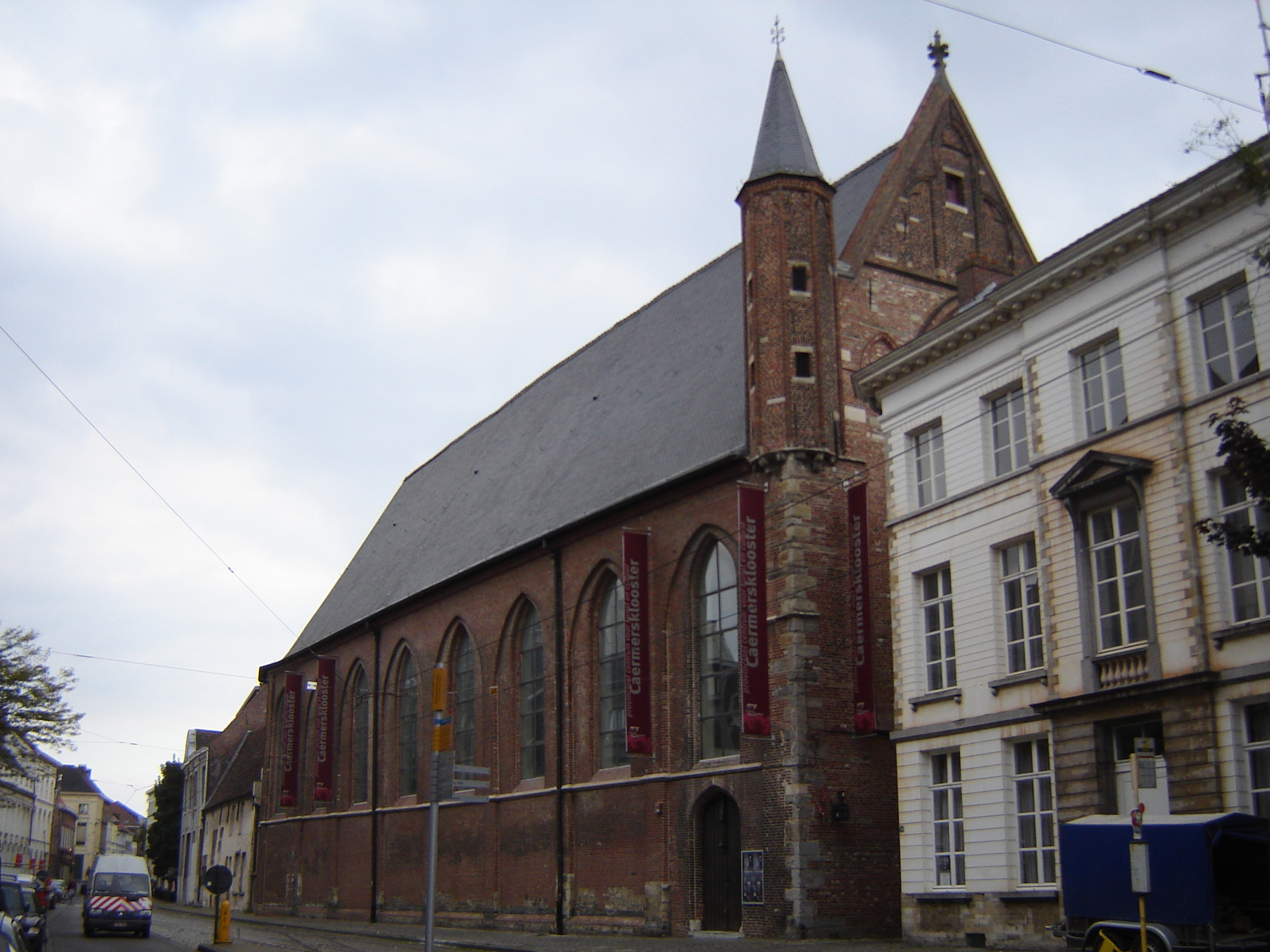 Caermersklooster (convent) in Gent. Gent, East Flanders, Belgium.